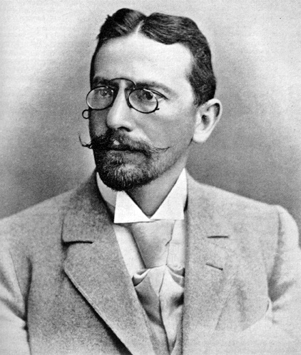 photo of Dr. Siegbert Tarrasch, German physician and chess grandmaster; lost to Emanuel Lasker in the world chess championship match 1908.